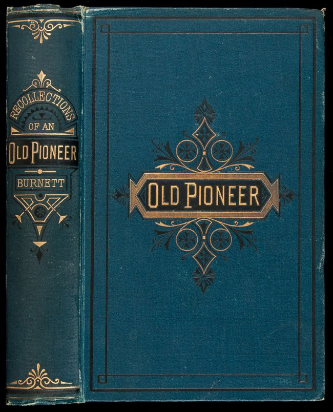 Recollections and opinions of an old pioneer (1880) Peter Hardeman Burnett